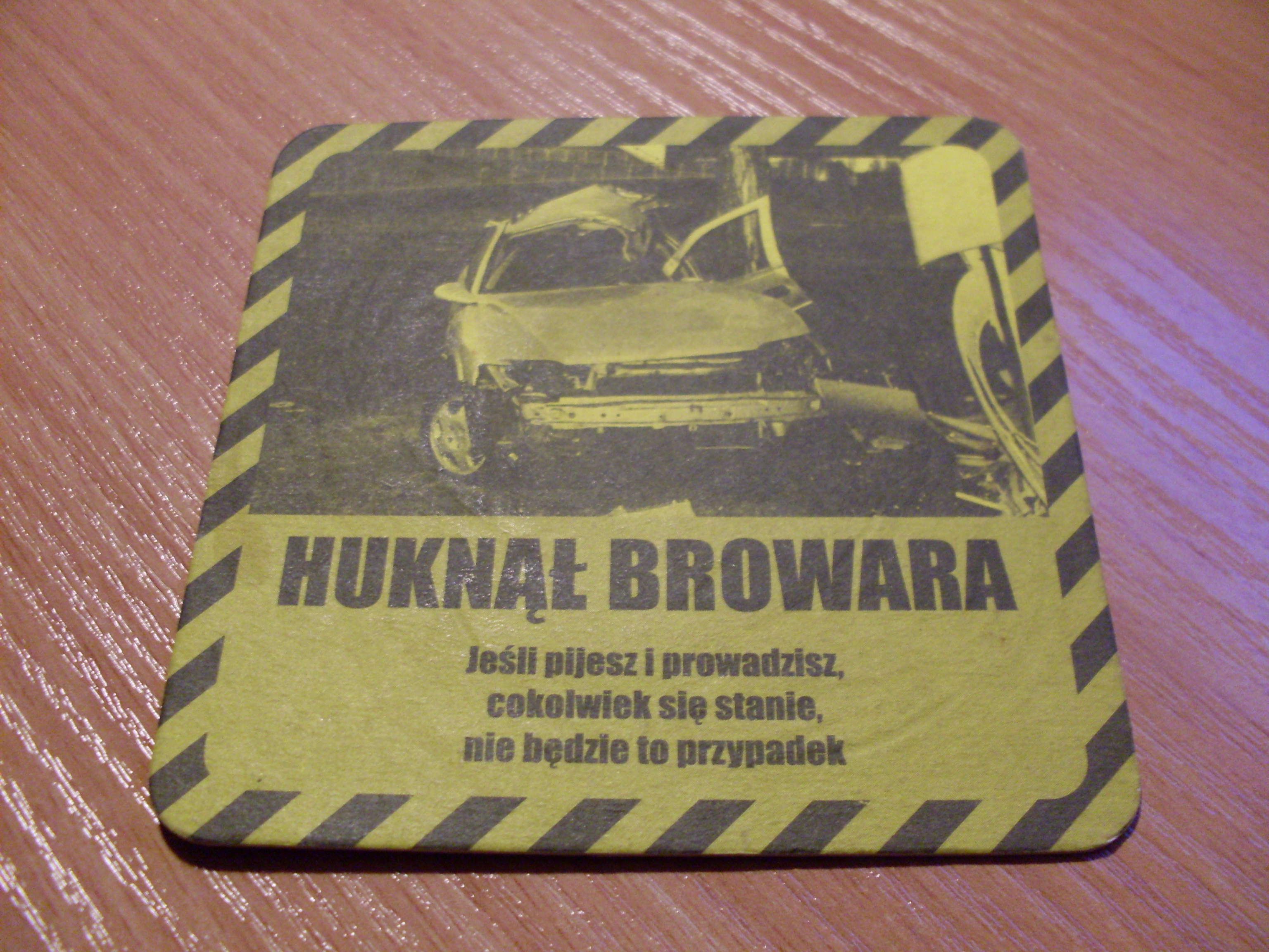 Polish beer mat with a sentence: If you drink and drive, everything won't be a chance